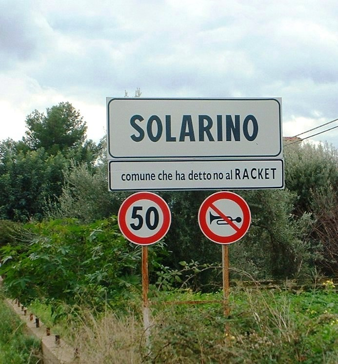 City limit sign of Solarino (SR), Italy